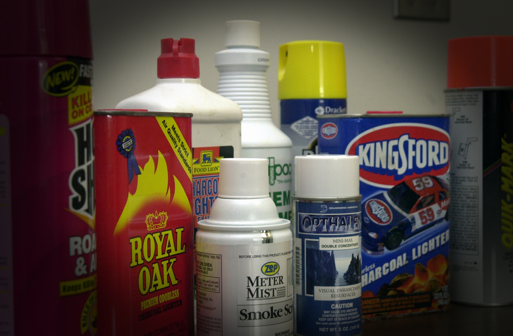 MARINE CORPS BASE CAMP LEJEUNE, N.C. - Any of these products, combined with a rag and a few deep breaths from a good pair of lungs, have the potential to be deadly. Even a single session of abuse can disrupt heart rhythms and cause death from cardiac arrest or lower oxygen levels enough to cause suffocation, according to the National Institute on Drug Abuse. (Official Marine Corps photo by Lance Cpl. Matthew K. Hacker)